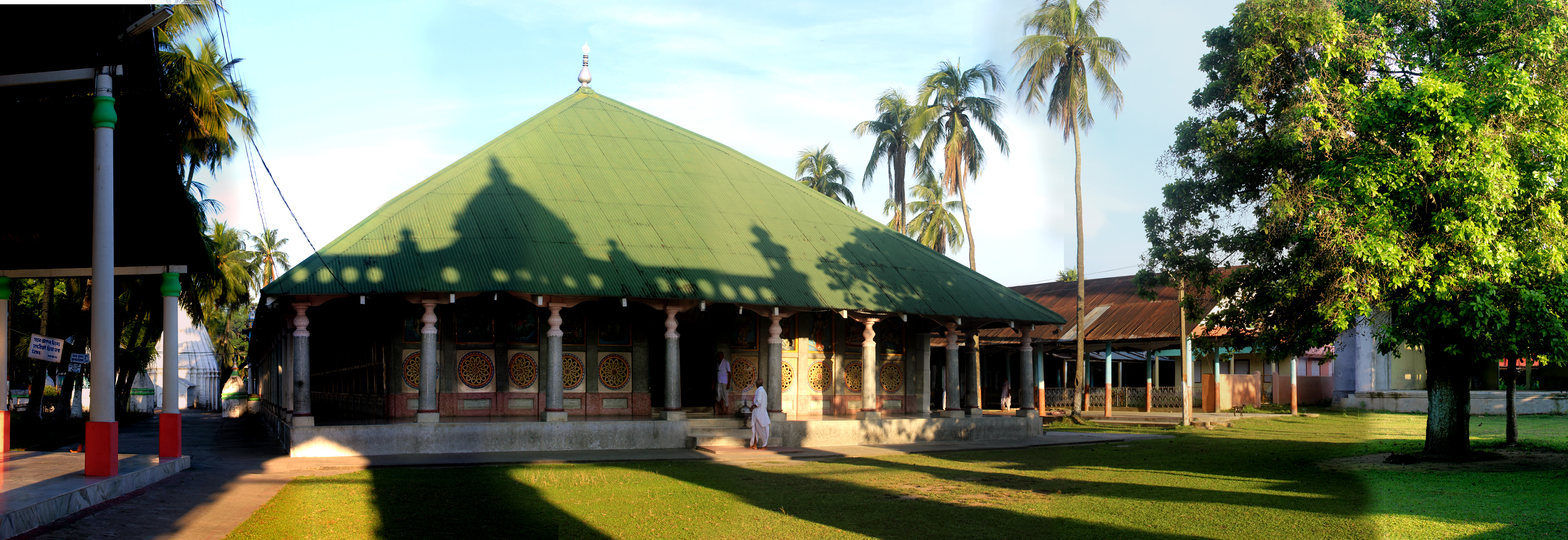 A composite photo of Barpeta Satra (Barpeta Kirtn Ghar situated at Barpeta, Assam, India.